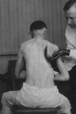 [This picture shows how the shoulder has been detached from the chest. The operation is rarely used today.] (WWI/Reeve 348). Part of the Armed Forces Institute of Pathology (AFIP), therefore work of the US military, in the public domain.